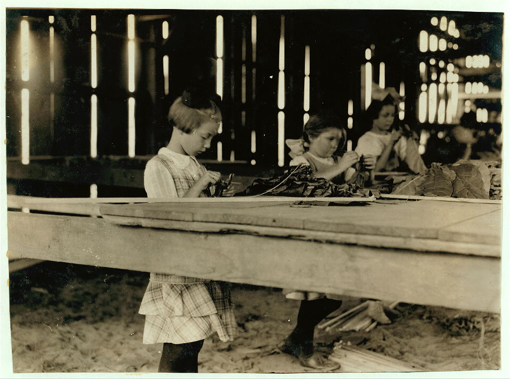 Interior of tobacco shed, Hawthorn Farm. Girls in foreground are 8, 9, and 10 years old. The 10 yr. old makes 50 cents a day. 12 workers on this farm are 8 to 14 years old, and about 15 are over 15 yrs. Location: Hazardville, Connecticut.